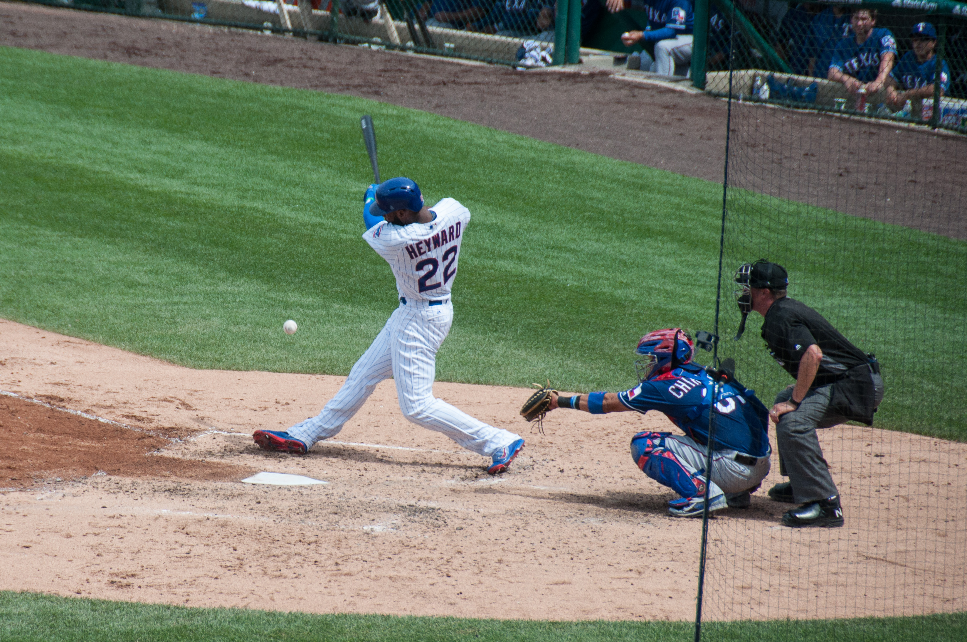 Heyward fouls one off